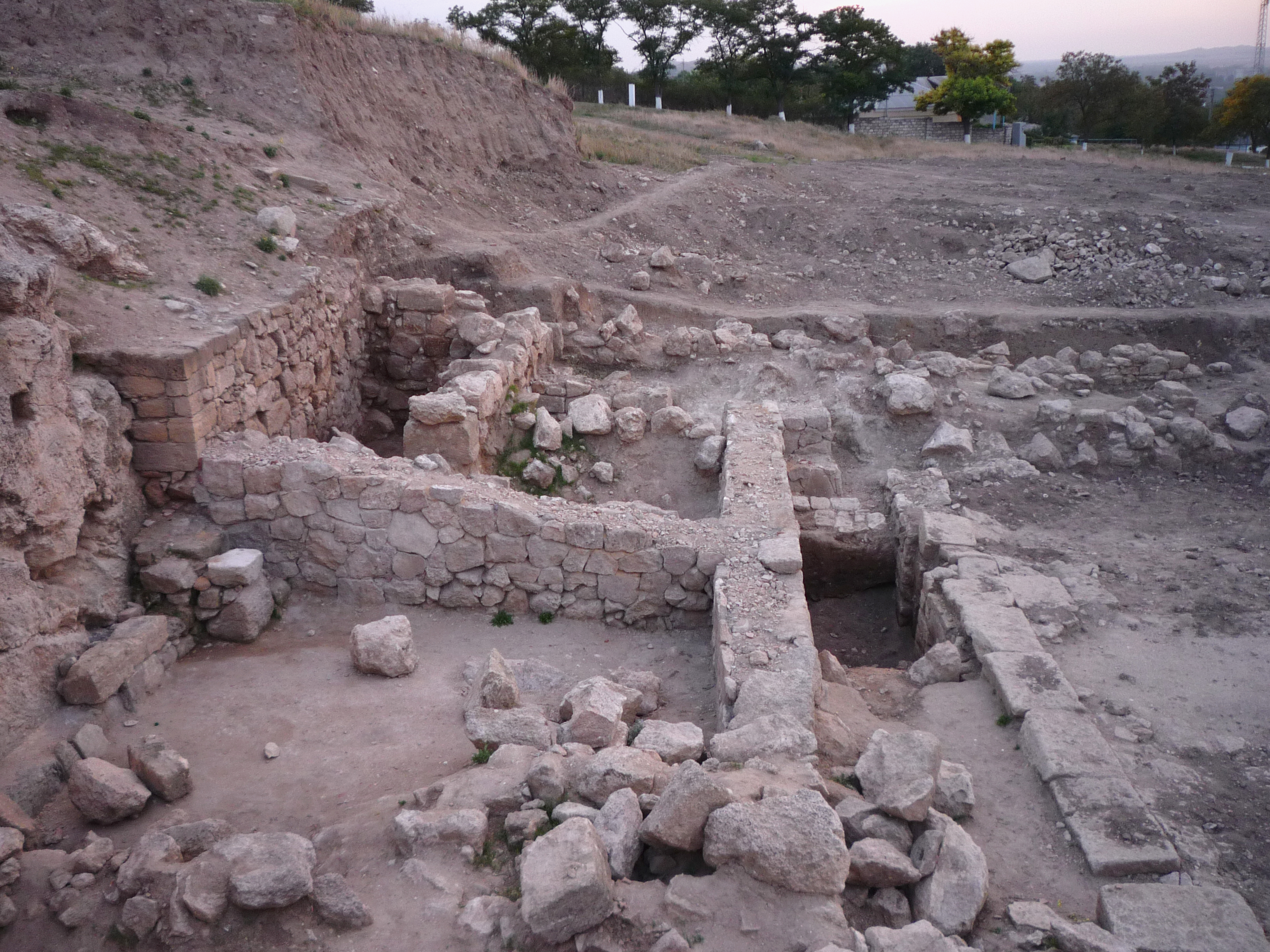 Archeological excavations in Kerch, Ukraine.